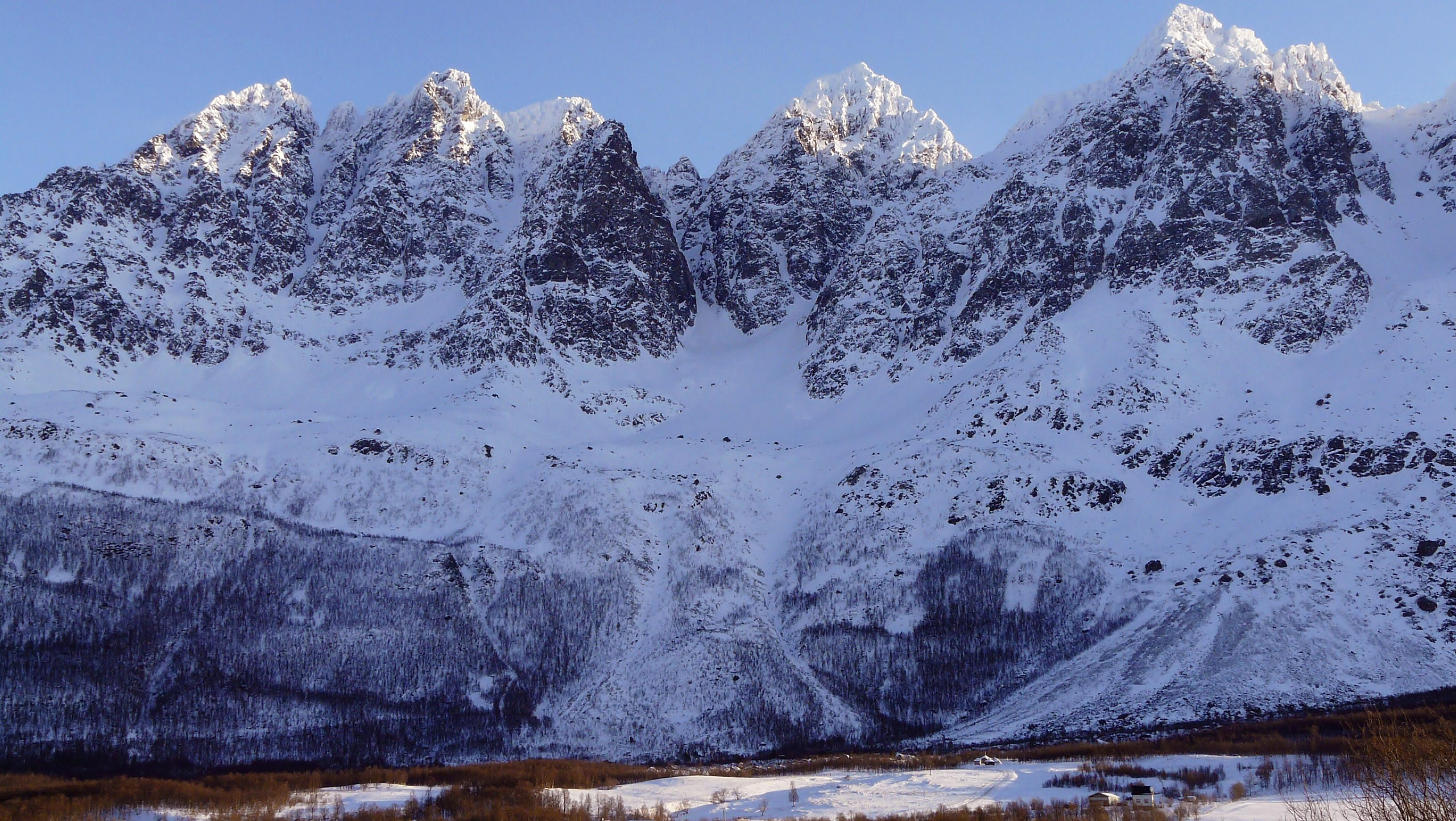 Lakselvtindane as seen from the Fylkesvei 293 road near Lakselvbukt in 2009 February.